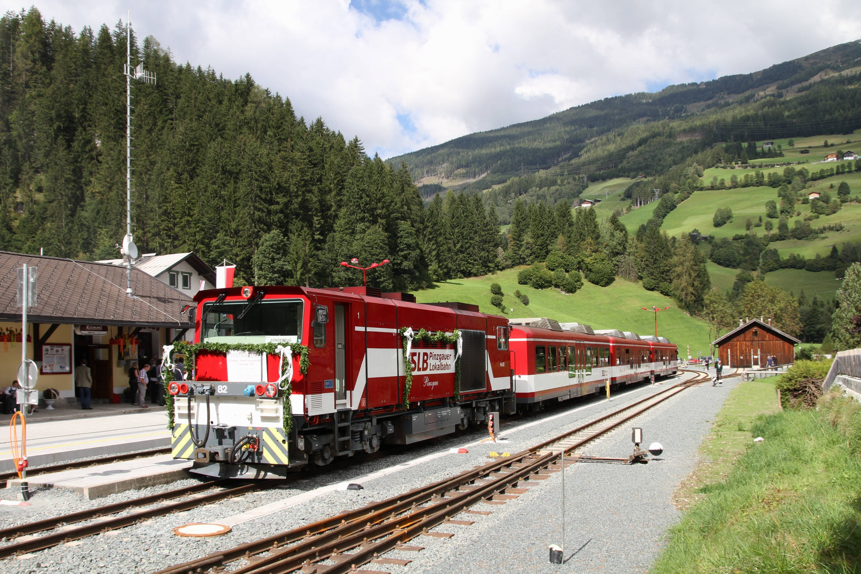 Opening special train of the Pinzgauer Lokalbahn at Krimml station, terminus of the last section to be reopened after the floodings in 2005.